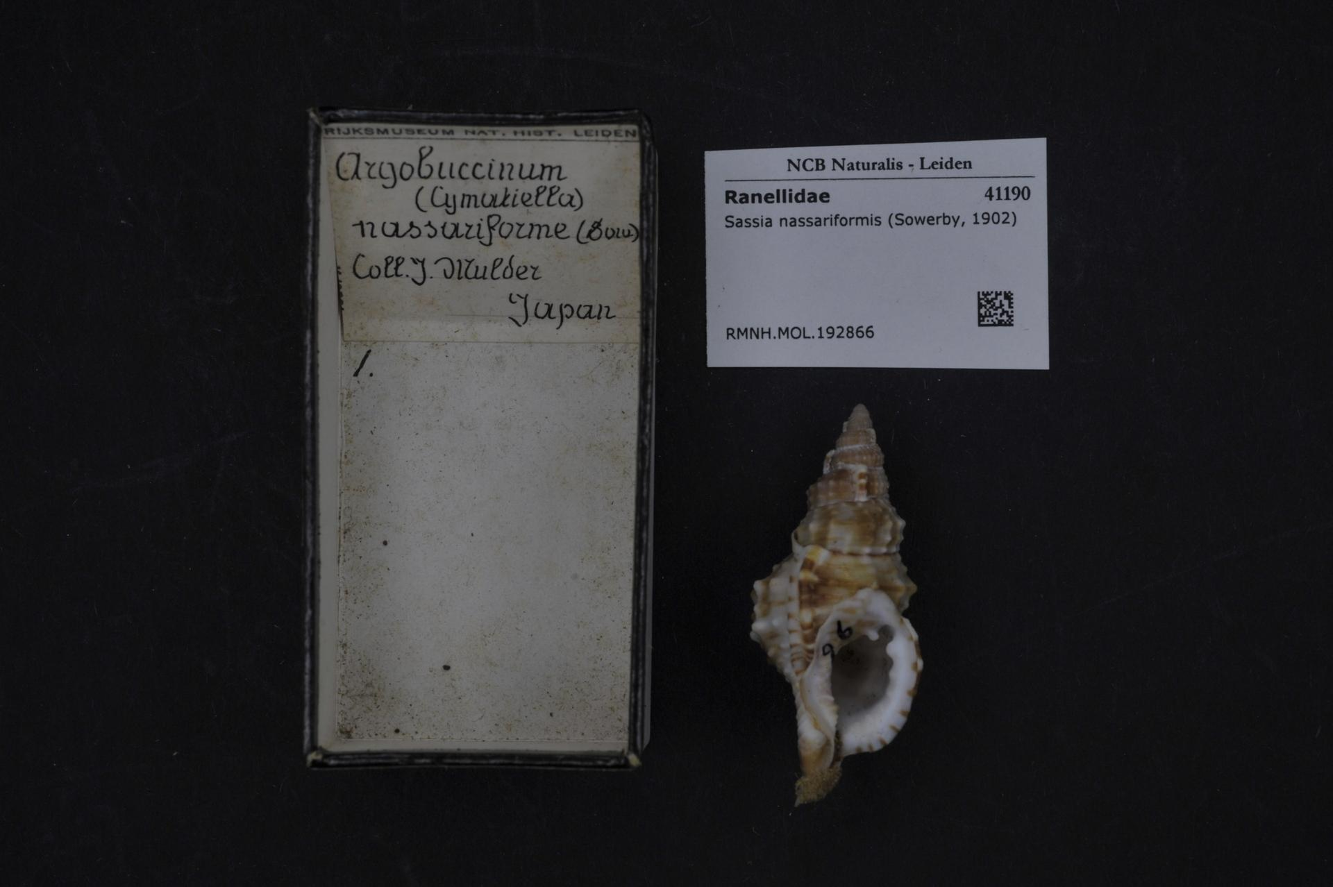 Sassia nassariformis (Sowerby, 1902)